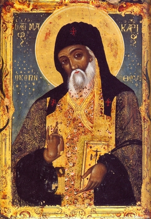 Icon of Saint Macarios Archbishop of Corinth